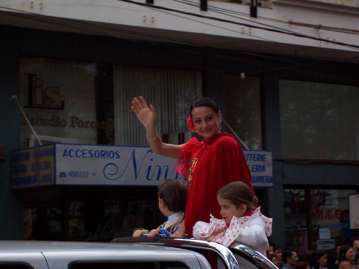 Natalia Fernandez, queen of the Spanish colectivity, during the inaugural parade of XXVI Immigrant's National Festival, in Oberá, Misiones, Argentina.